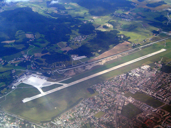 Aerial photographs of Klagenfurt Airport in Austria